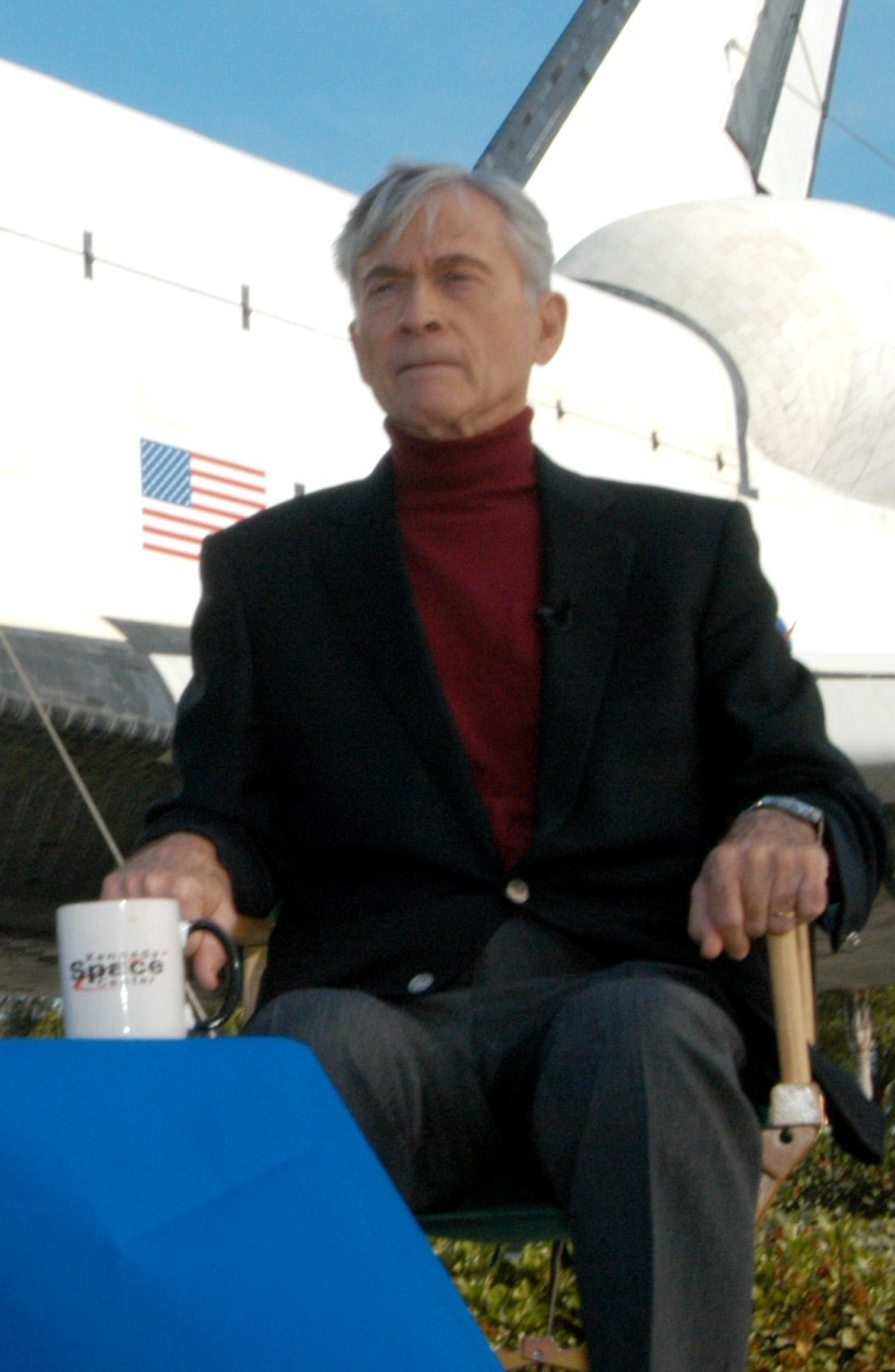 KENNEDY SPACE CENTER, FLA. - To honor the 25th anniversary of the first shuttle launch on April 12, 1981, STS-1 Pilot Bob Crippen (left) and Commander John Young (right) sit in front of a mockup of a space shuttle at the Kennedy Space Center Visitor Complex. During their appearance, they shared their experiences on that historic flight.